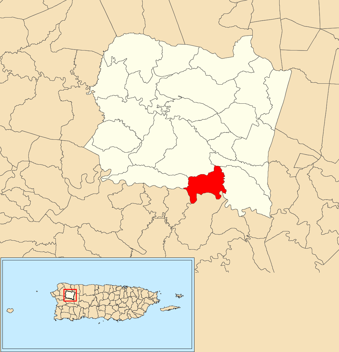 Mirabales, San Sebastián, Puerto Rico locator map